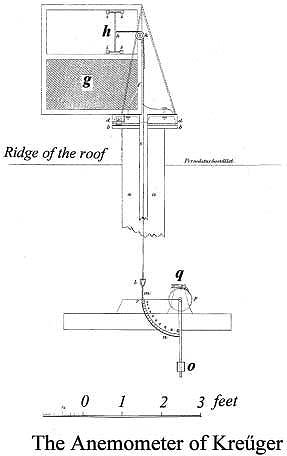 Anemometer (wind speed measuring device) designed by Johan Henrik Kreuger (1782-1858) around 1850. Drawing by Axel Erdmann, 1855. Functional description (see figure): The pressure plate h, supported by two pairs of friction wheels, can move in a frame fastened to the wind vane g. The axis of the vane is a tube (Kreüger suggested a musket pipe). With a cord running in the tube, the pressure plate is connected to a lever with a scale and a counterweight o. Two clicks q lock the scale and counterweight at the maximum indication. The instrument thus records the maximum wind pressure since last release of the clicks. After the first tests, the vane was equipped with a V-shaped fin to dampen its oscillations. The sensor should be placed on the lighthouse master's house with the wind vane at the height of the chimney, and with the lever and the scale in the attic. A 32-point wind rose on the tube (not shown in the figure) showed the wind direction. The instrument also had a primitive recording device (not shown in the figure), a piece of chalk on the lever writing on a circular plate. A pendulum clockwork rotated the plate. This device was probably not used.